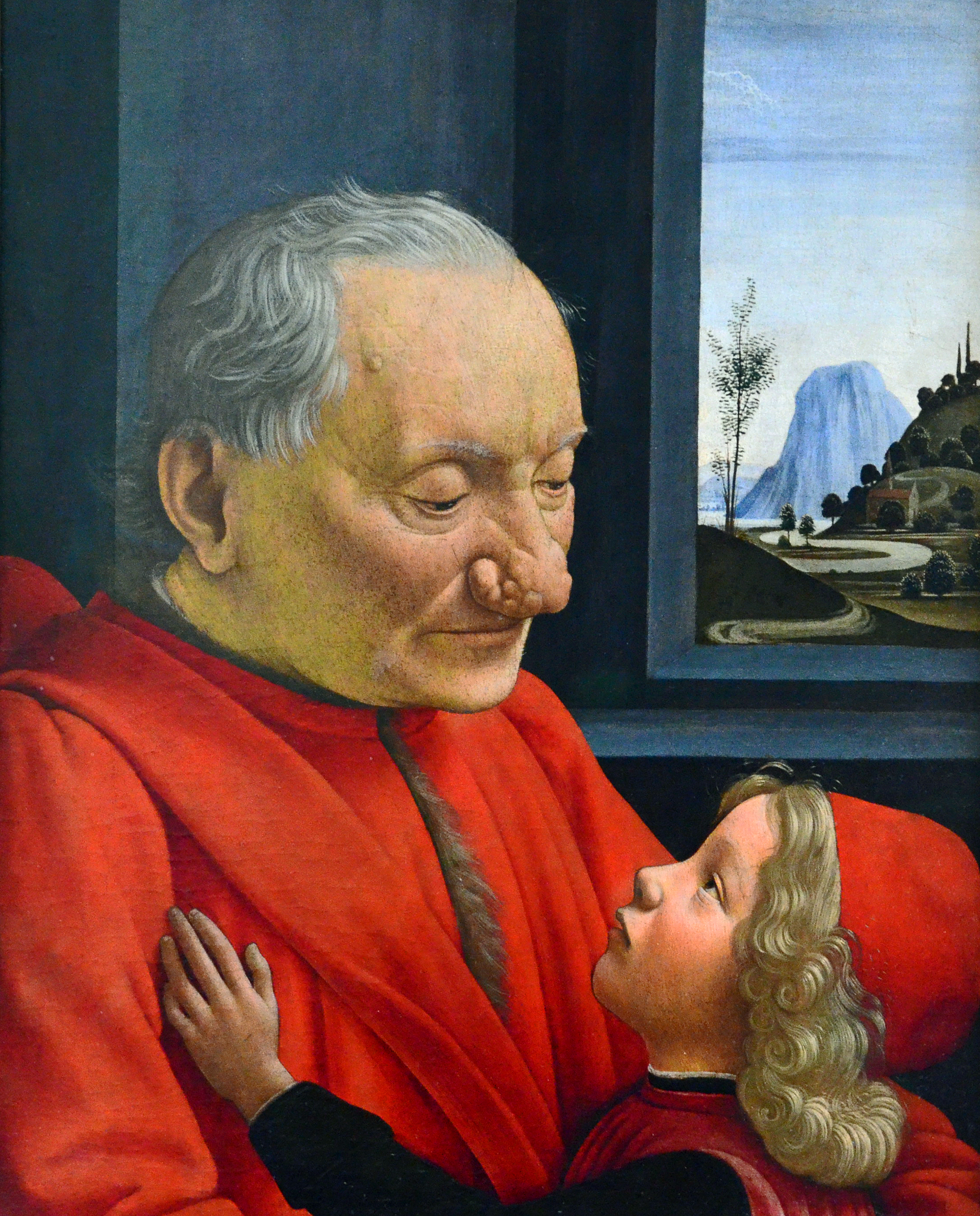 An Old Man and his Grandson, Ghirlandaio, 1490